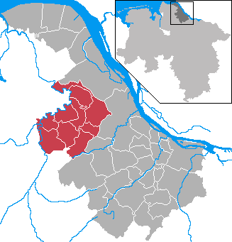 Samtgemeinde Oldendorf-Himmelpforten in District Stade, Lower Saxony